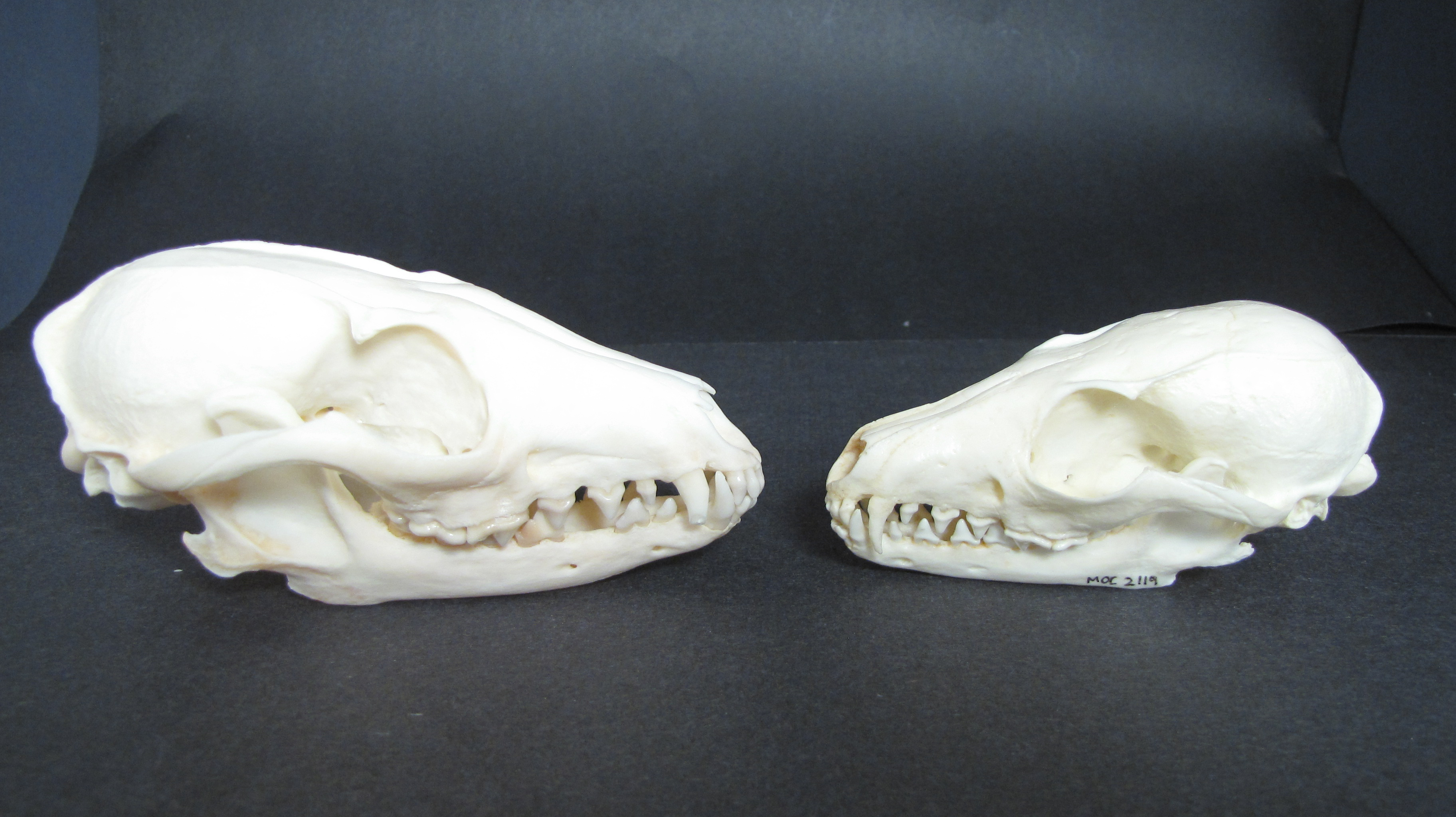 From personal osteological collection. The island fox skull (Urocyon littoralis) is a replica produced by Valley Anatomical Preparations, Inc. The gray fox skull (Urocyon cinereoargenteus) is a natural find collected from central Minnesota.